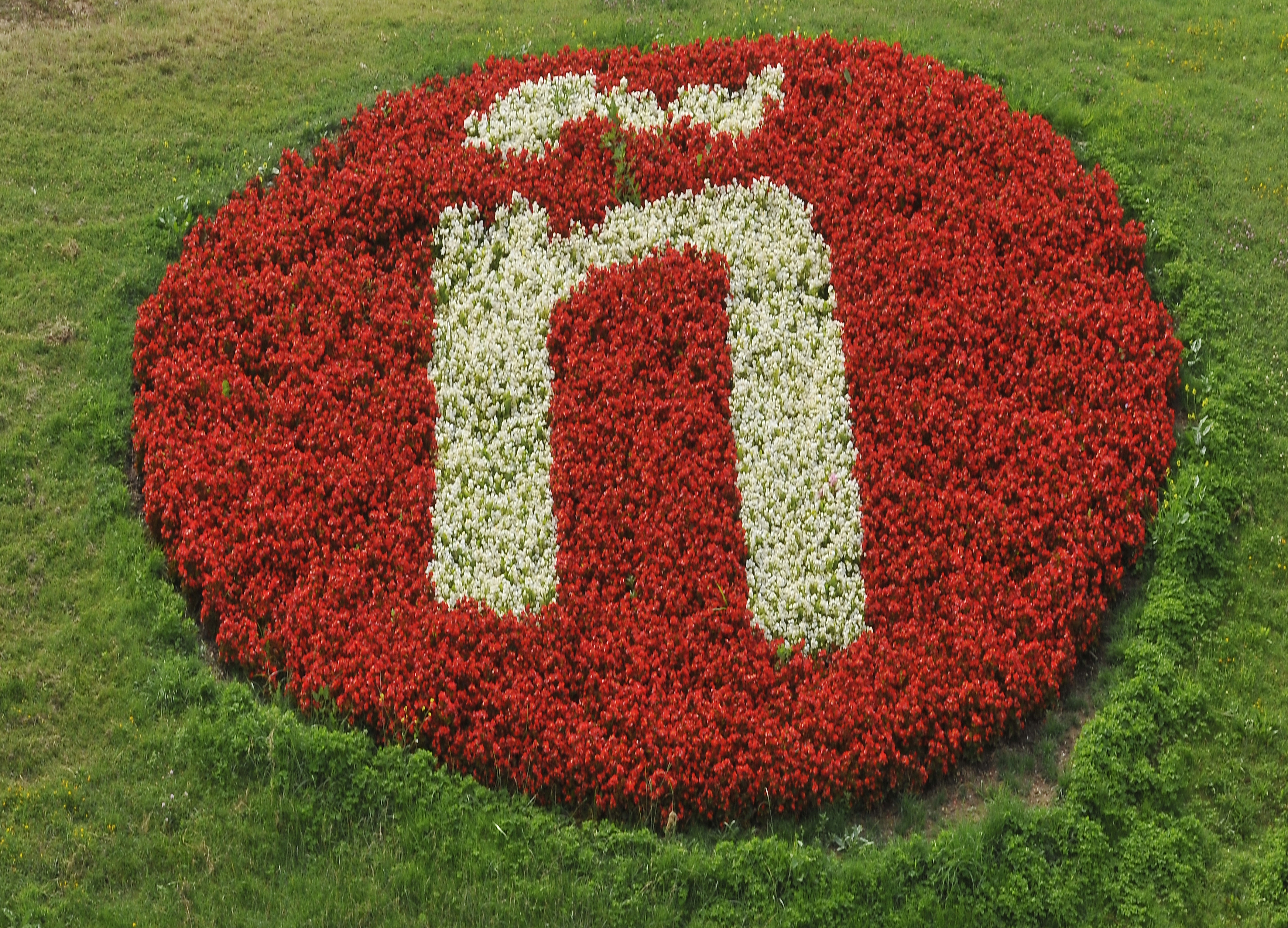 Flower bed with the "ñ" letter at San Miguel Park. Logroño, La Rioja, Spain